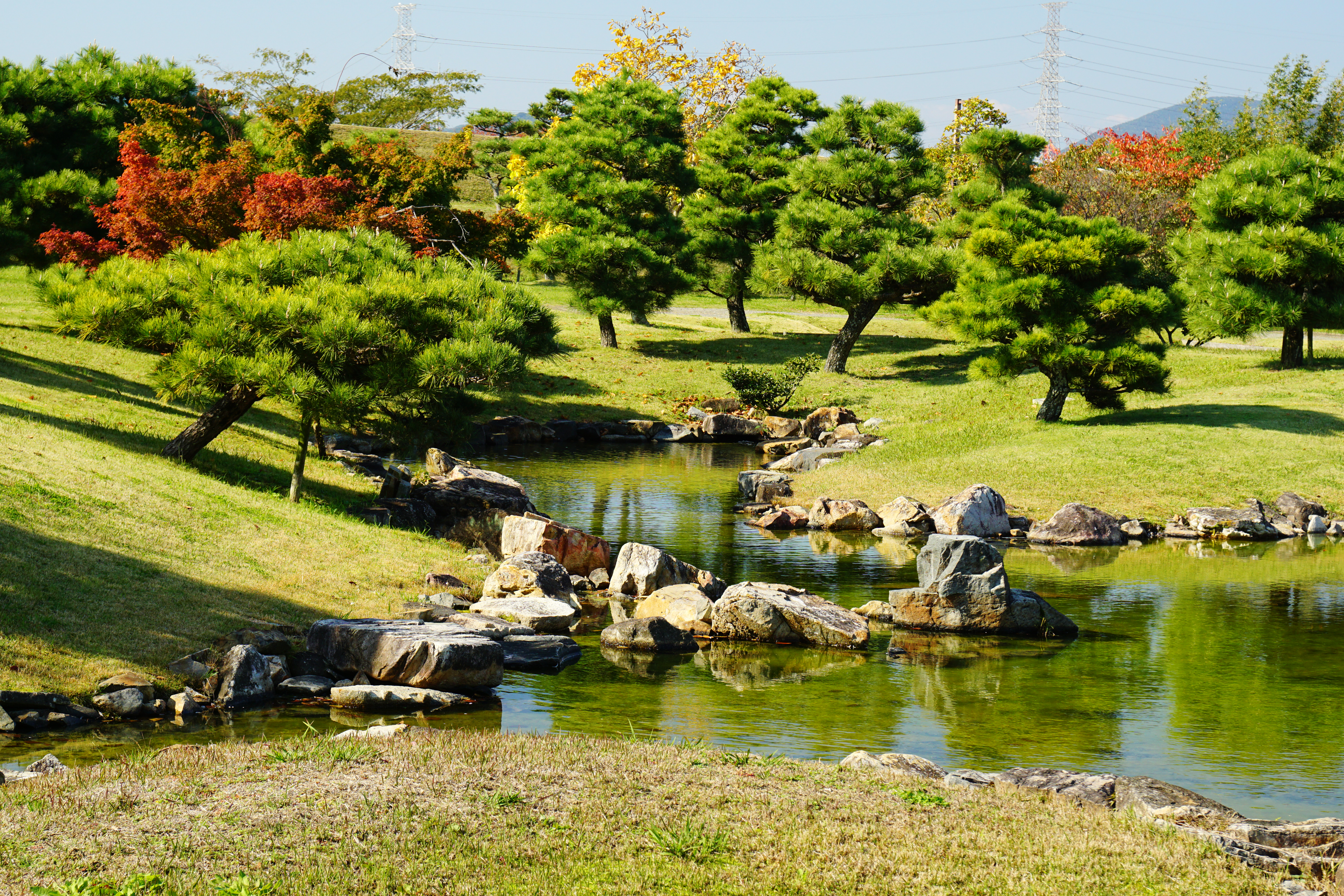 Akō Castle Honmaru Garden in Ako, Hyogo prefecture, Japan.